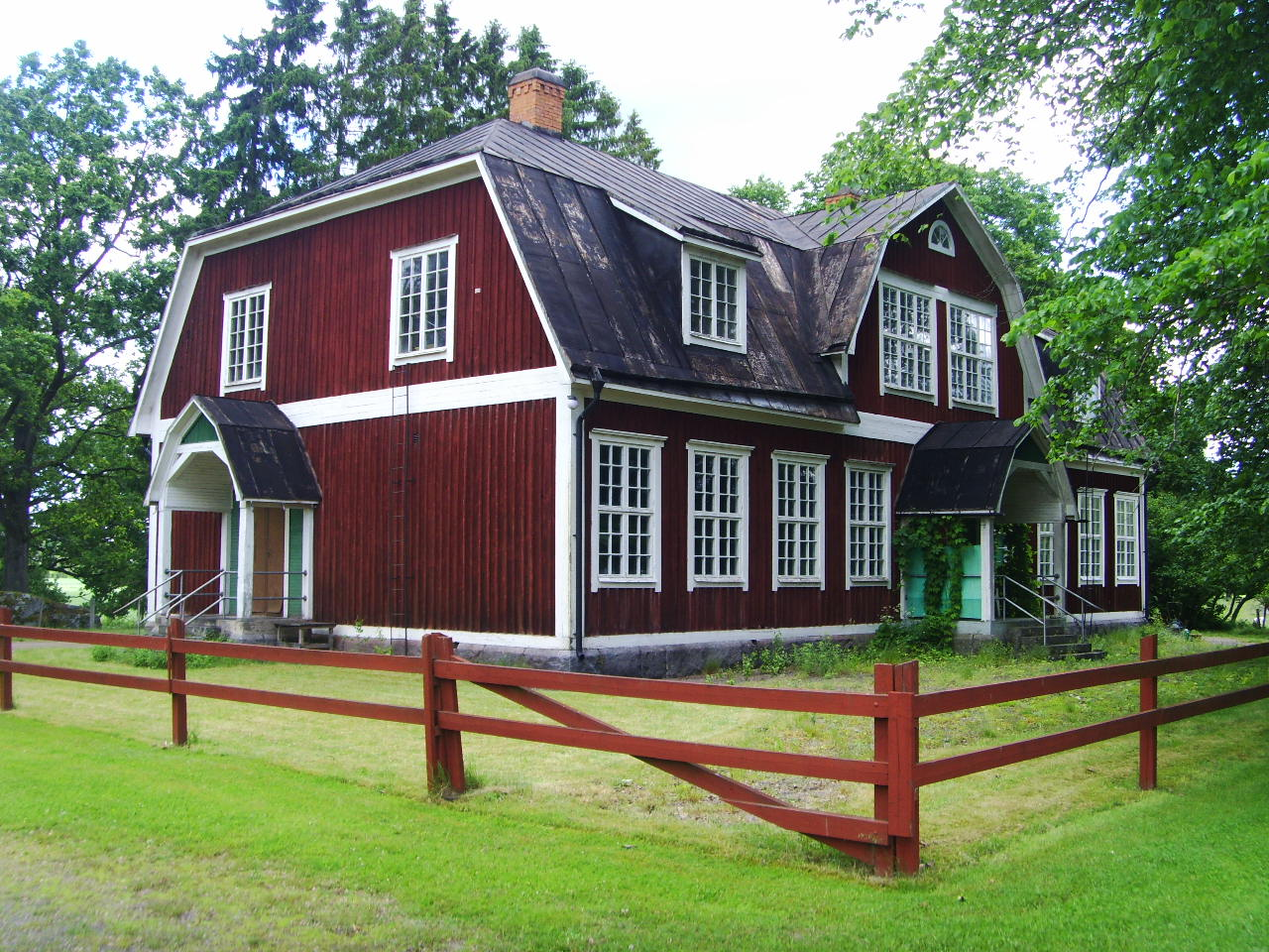 The church in Tveta, Småland. School building